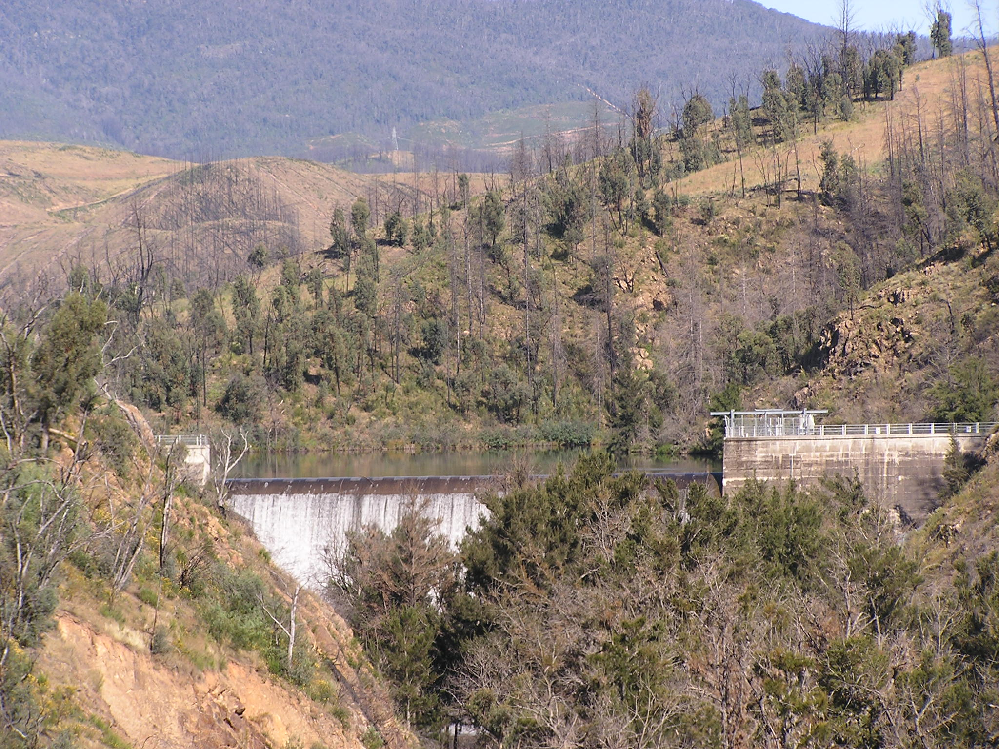 Cotter dam, Australian Capital Territory, December 2005